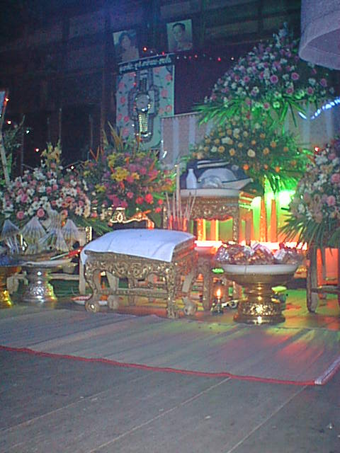 Items at a wake for a drowned child in Nong Kanang, Khui Mueang, Bang Rakam, Phitsanulok, Thailand